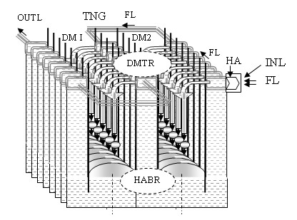 Molecular power 27. Structural and constructive diagrams of a multi-element hydroabsorptive molecular power system based on the thermodynamic Gibbs n-potential